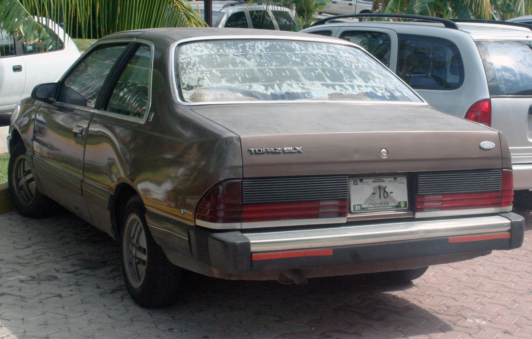 Mexican market 1985 Ford Topaz GLX in Playa del Carmen, Mexico. This special hybrid version, sold only in Mexico, used the taillight design of the US-market Mercury Topaz 2-door.